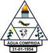 Coat of arms of Água Comprida - Minas Gerais - Brazil.